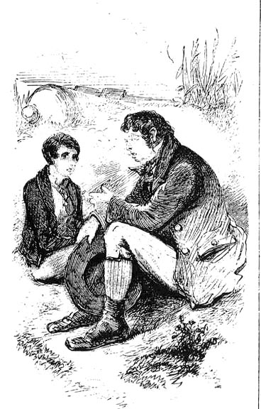 Great Expectations: Pip and Joe sitting on the marshes, by John McLenan